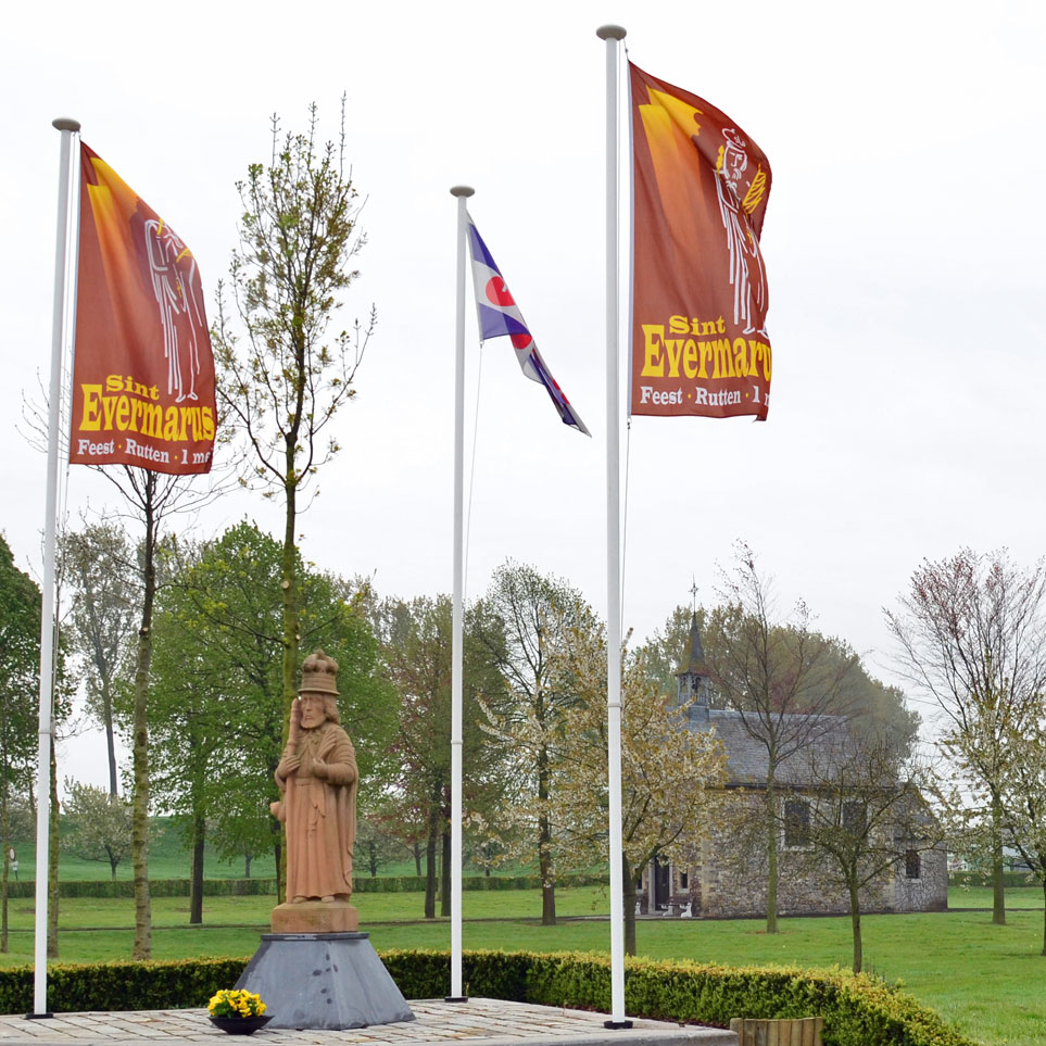 Statue of St Evermarus in Rutten (Belgium) with Evermarus chapel.